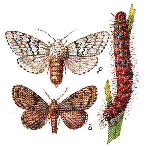 Lymantria dispar